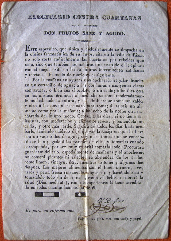 The first known patient information leaflet for a Spanish medicine.